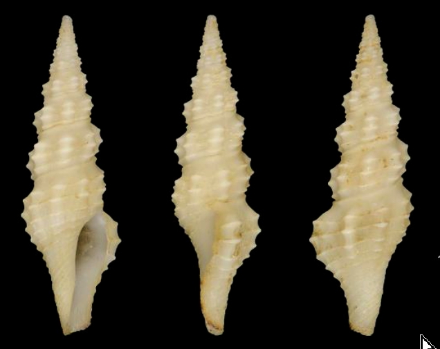 Compsodrillia haliostrephis (Dall, 1889); family Pseudomelatomidae; holotype at the Smithsonian Institution